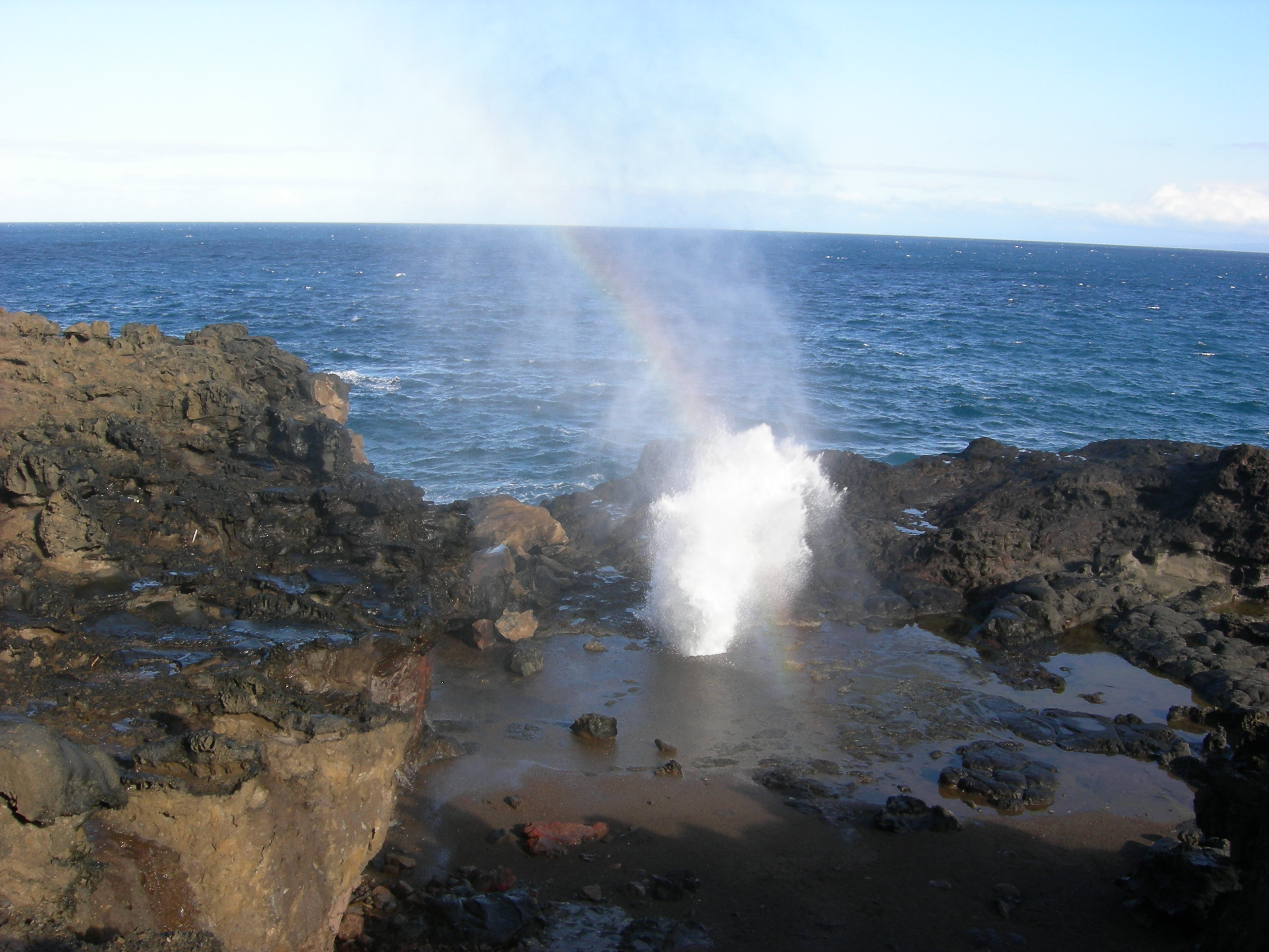 An eruption and rainbow at the blowhole at Nakalele Point, Mauʻi, Hawaiʻi, USA